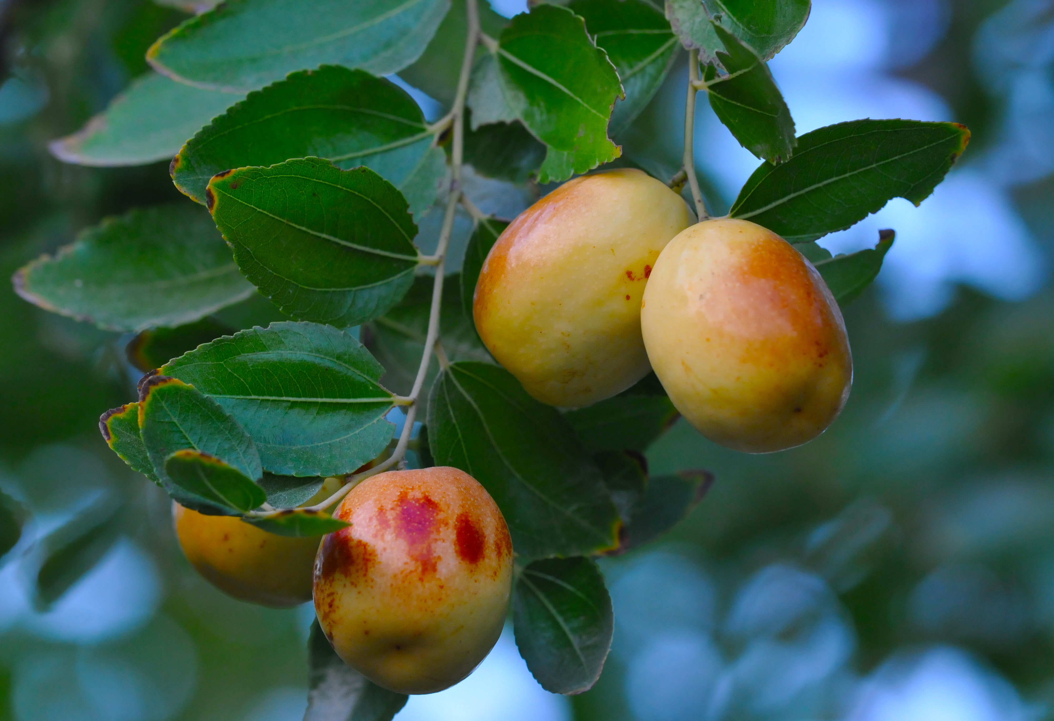 Ziziphus jujuba (Common jujube). Adana, Turkey